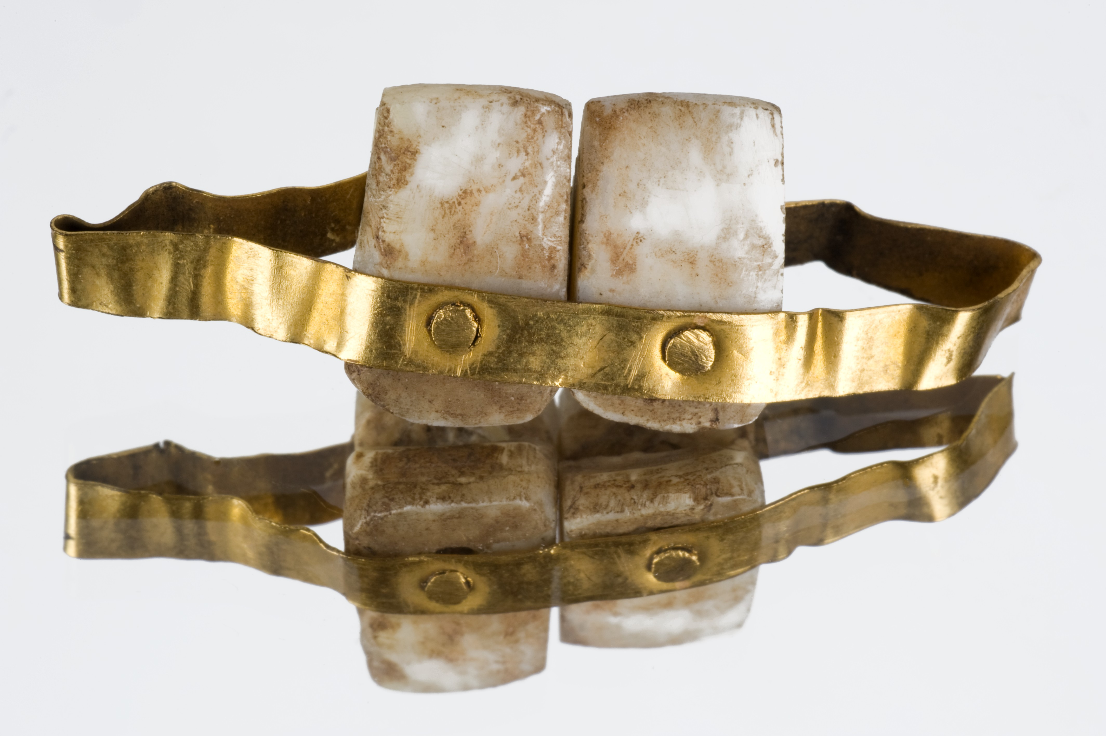 Etruscans, people living in Etruria (Umbria and Tuscany, Italy), were the first to make dentures and false teeth, from 700 BCE onwards. Teeth from another person or an animal, such as an ox, were inserted into a band of gold with a metal pin and fitted on to the remaining teeth. Imagine eating with another person’s teeth! Only wealthy people could afford this treatment. There were no specialist dentists so dentistry was one of the duties of a physician. This is a copy of an original denture with two teeth, which was found in a tomb in Etruria, Italy. maker: Unknown maker Place made: Europe Wellcome Images Keywords: denture; prostheses; dental bridge; Dentistry